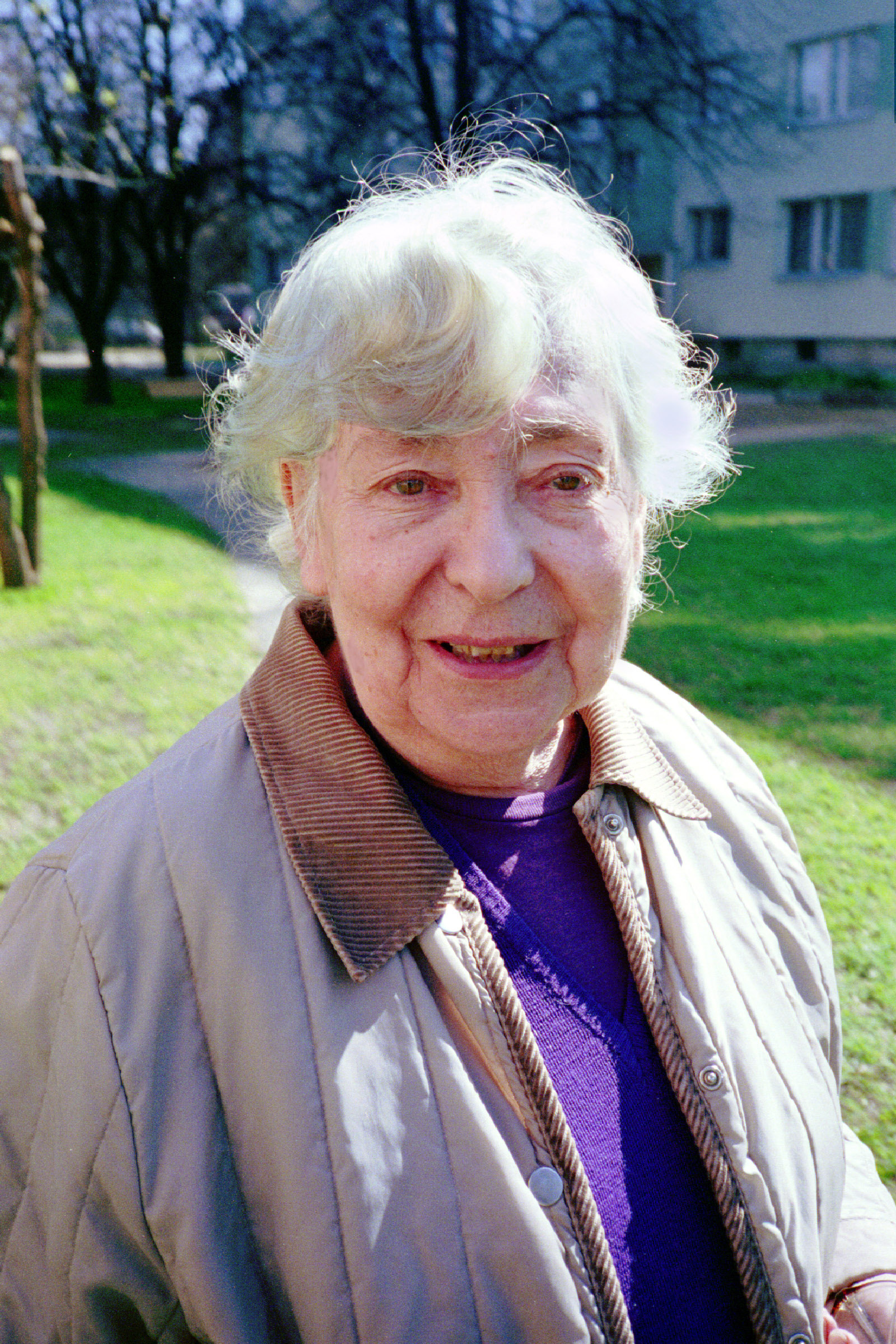 Irena Stankiewicz, Polish painter & wood engraver, born 1925